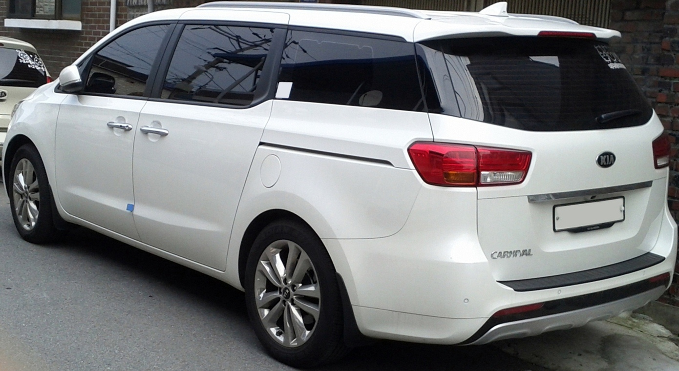 Kia All New Carnival